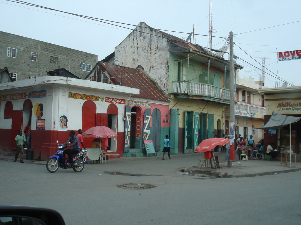 French colonial architecture